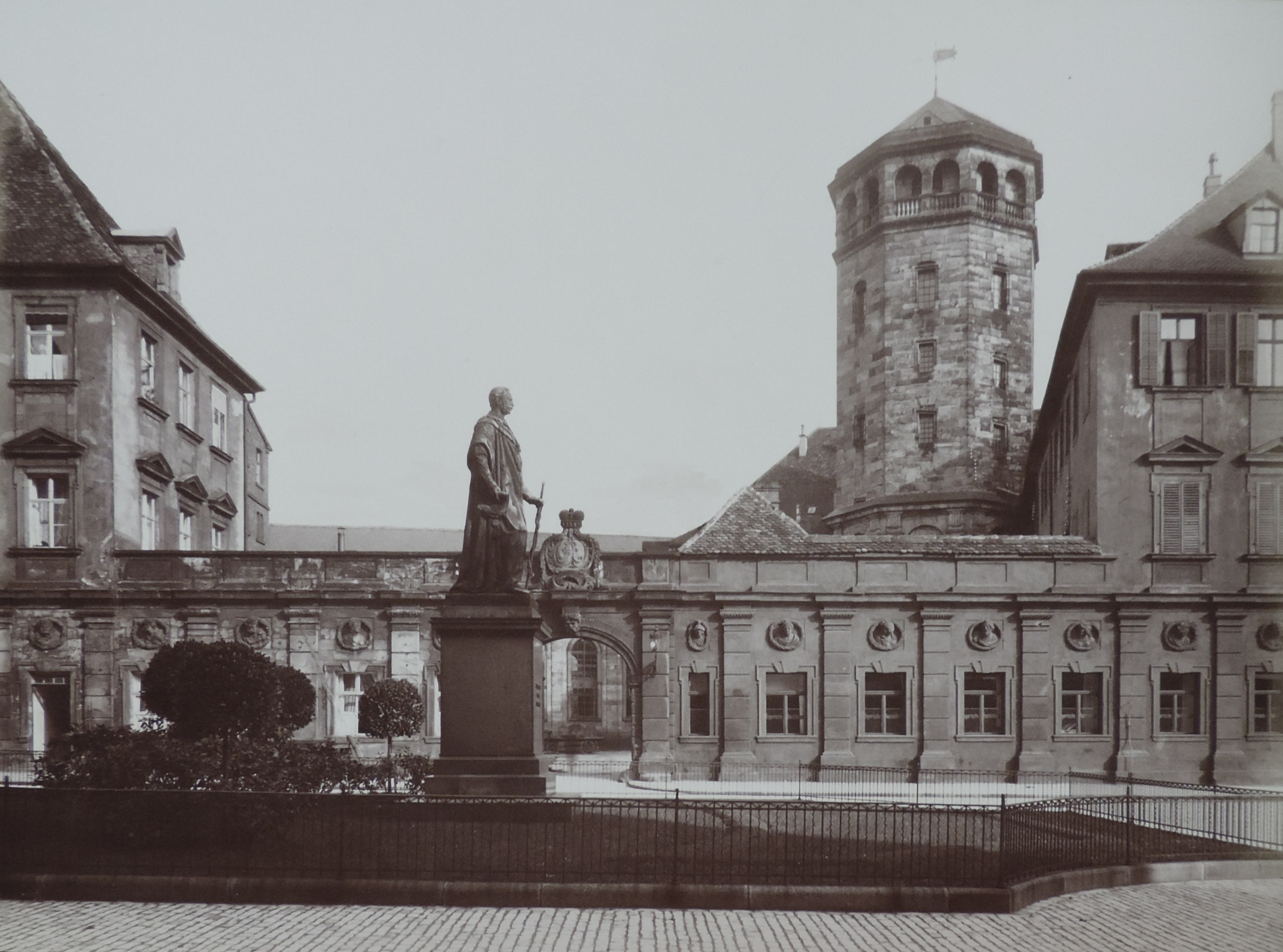 Views and photos of Bayreuth, Germany, gifted to Ferdinand I of Bulgaria to commemorate his 25-year rule. Monument of Maximilian II of Bavaria (King Max) from 1860.